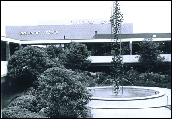 Picture of Mission Valley Mall courtyard, facing east towards the May Company store (later Robinsons-May, and currently Macy's). This large courtyard was originally built to provide some green space in the mall (as well as a children's playground, not visible). It remained that way until 1994, when it was covered over to provide room for a Ruby's Diner.